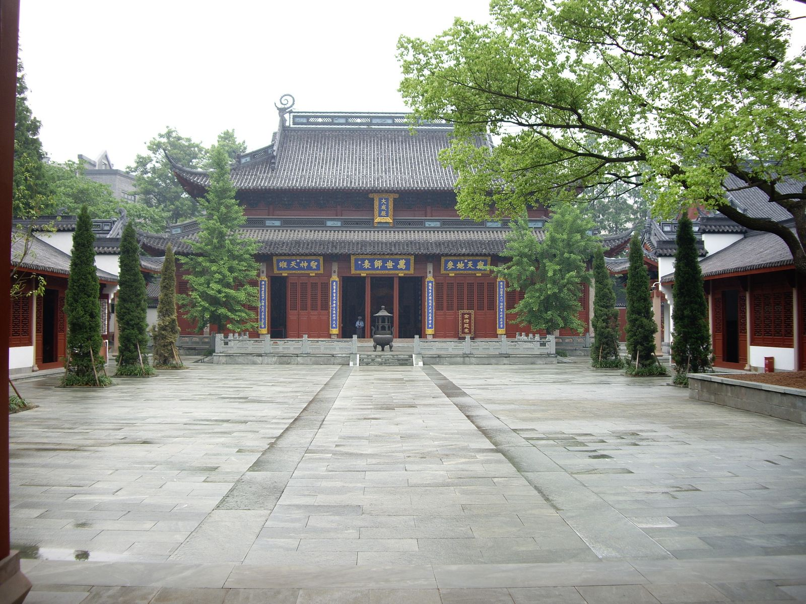 The main building of Confucius Temple in Hangzhou.